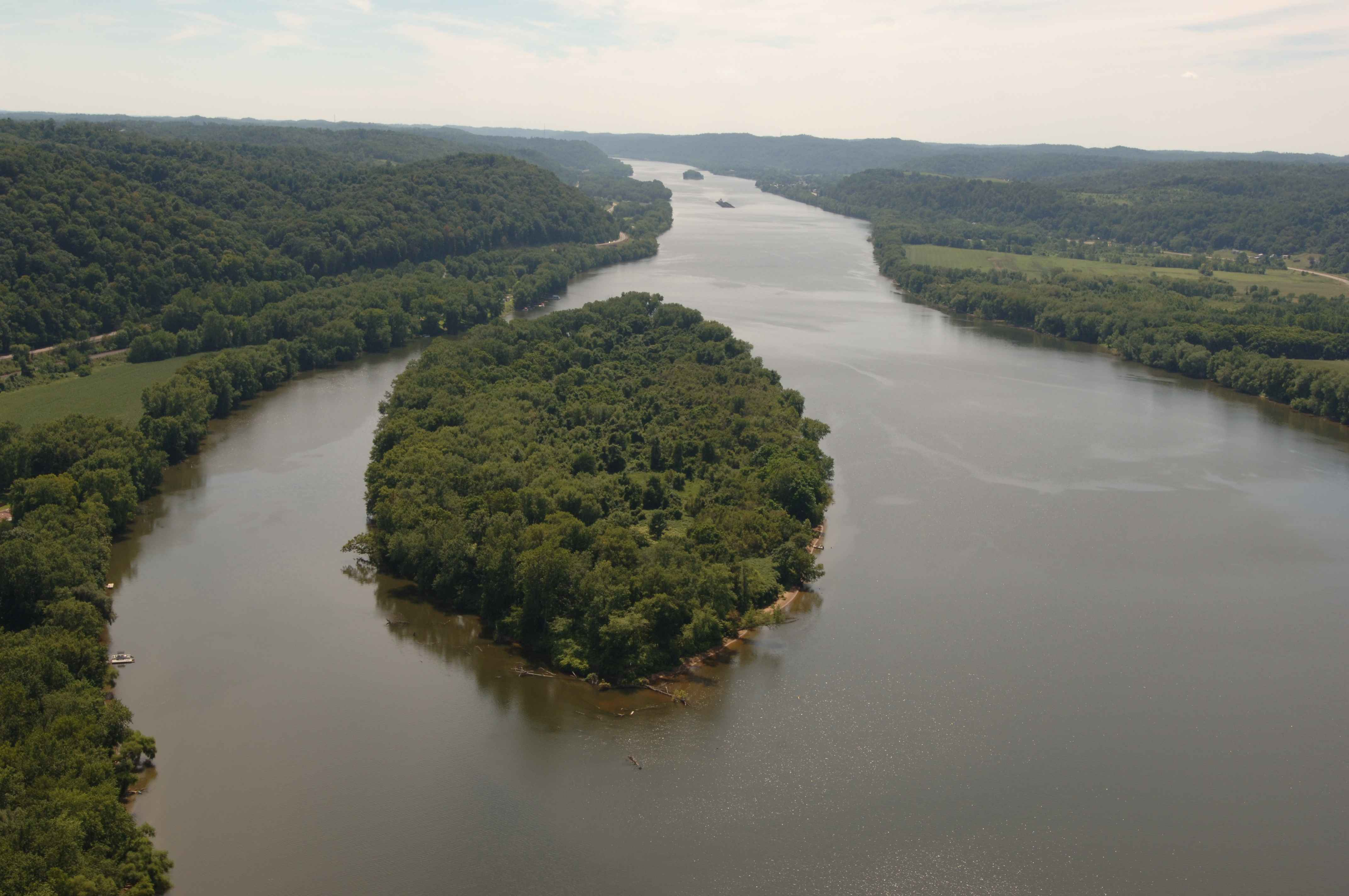 Image title: An aerial view of the Ohio River Islands National Wildlife Refuge Image from Public domain images website